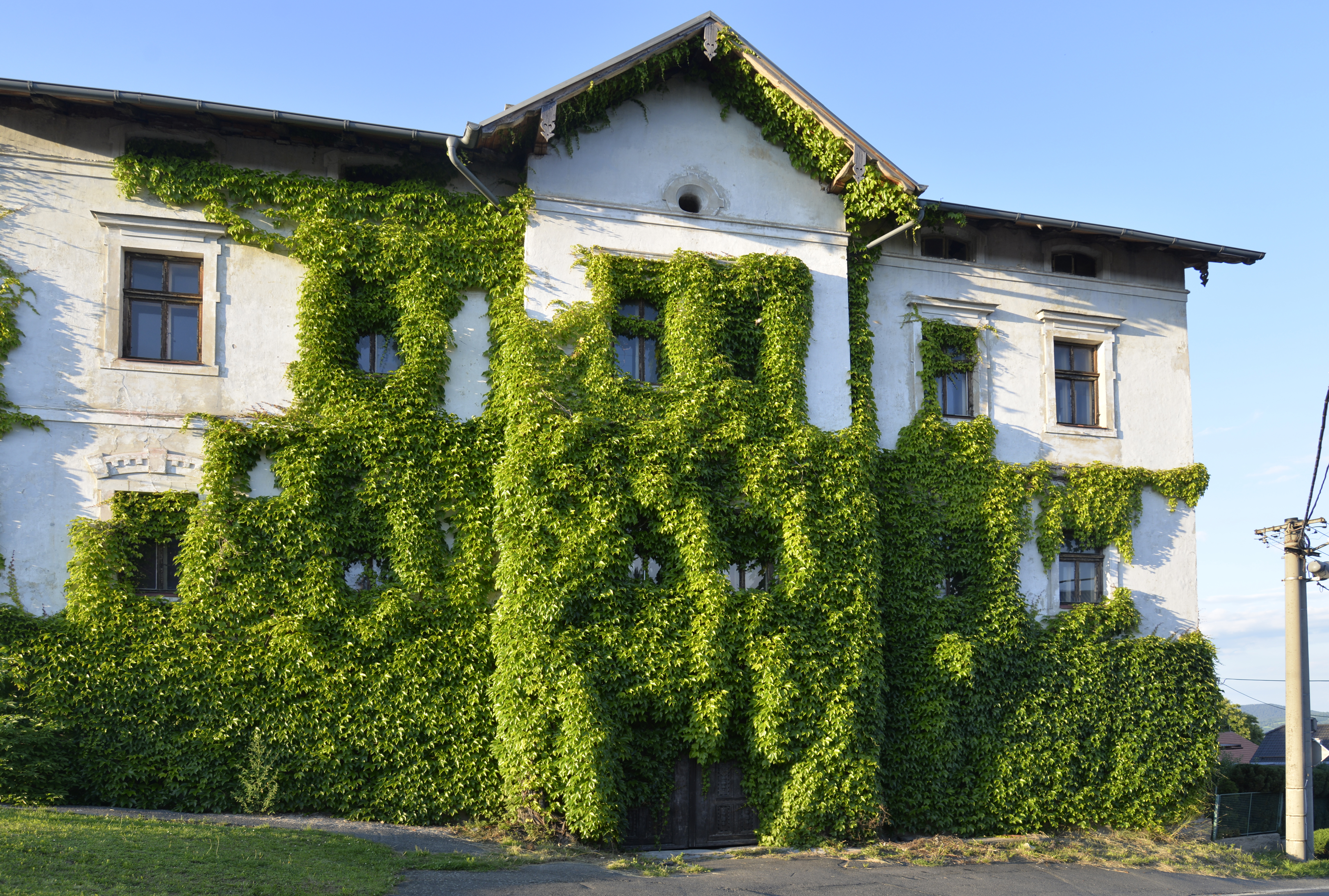 Hartmanice